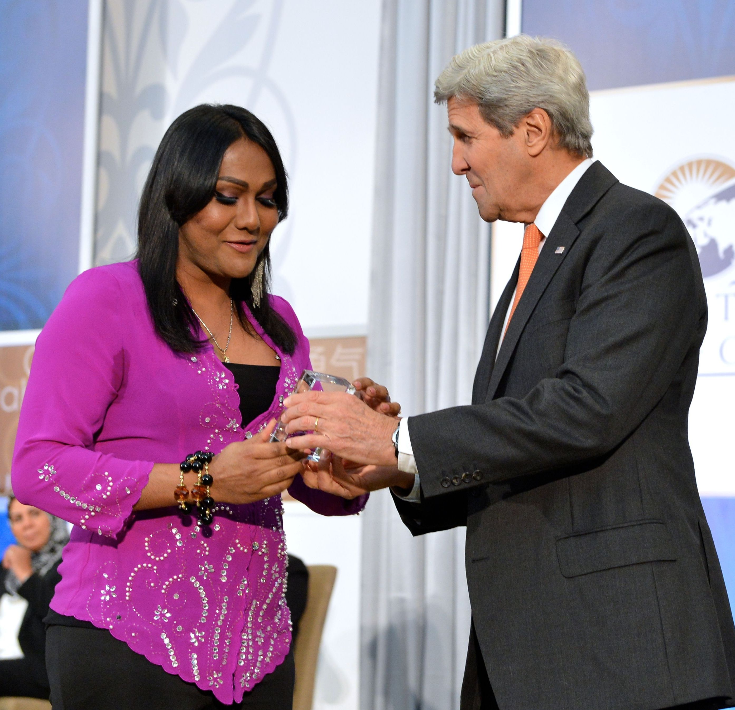 International Women of Courage Awards 2016